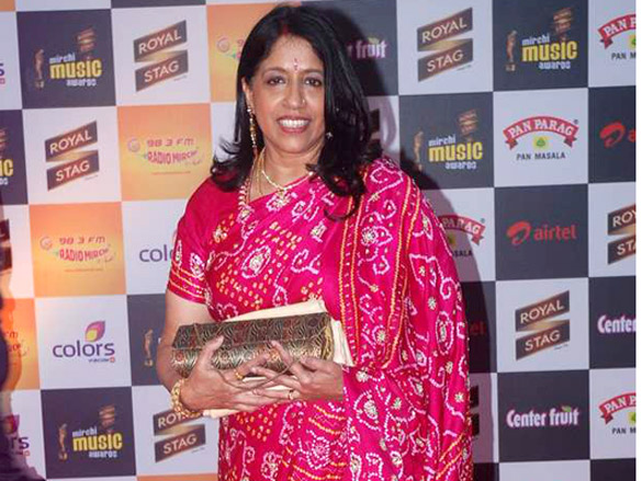 Kavita Krishnamurthy at Mirchi Music Awards 2012